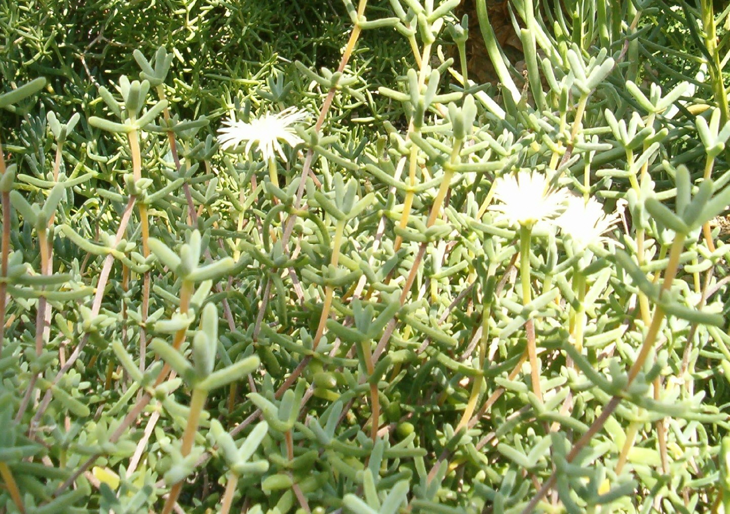 At Kirstenbosch National Botanical Gardens Species Drosanthemum diversifolium